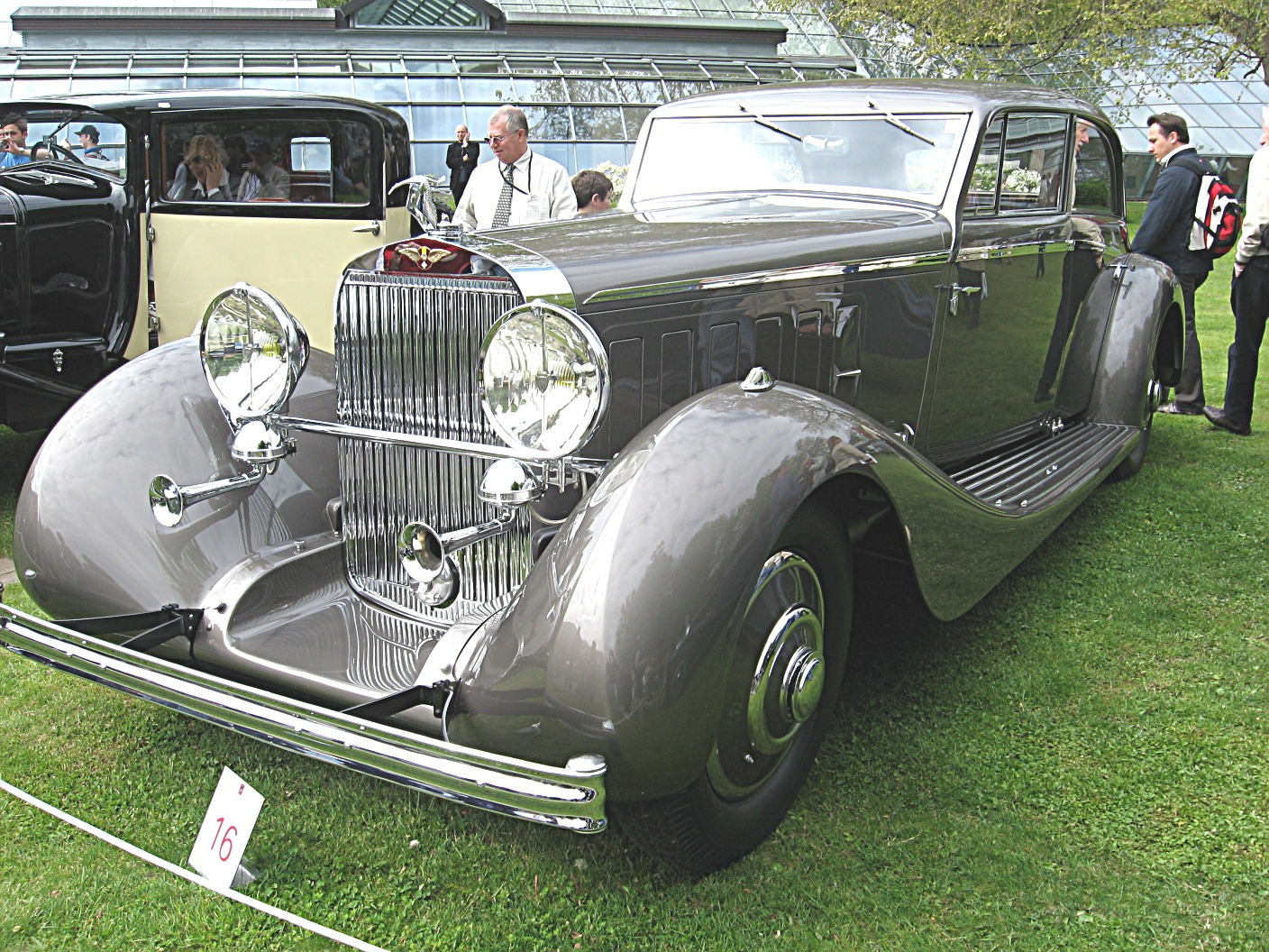 Subject:Hispano-Suiza J12 (1936), coachbuilding by Fernandez & Darrin Author:Luc106 Date:April 27th, 2008 Event:Concorso d’Eleganza”Villa d’Este” 2008 Place/Country: Cernobbio (CO), Italy I release all rights in the public domain.